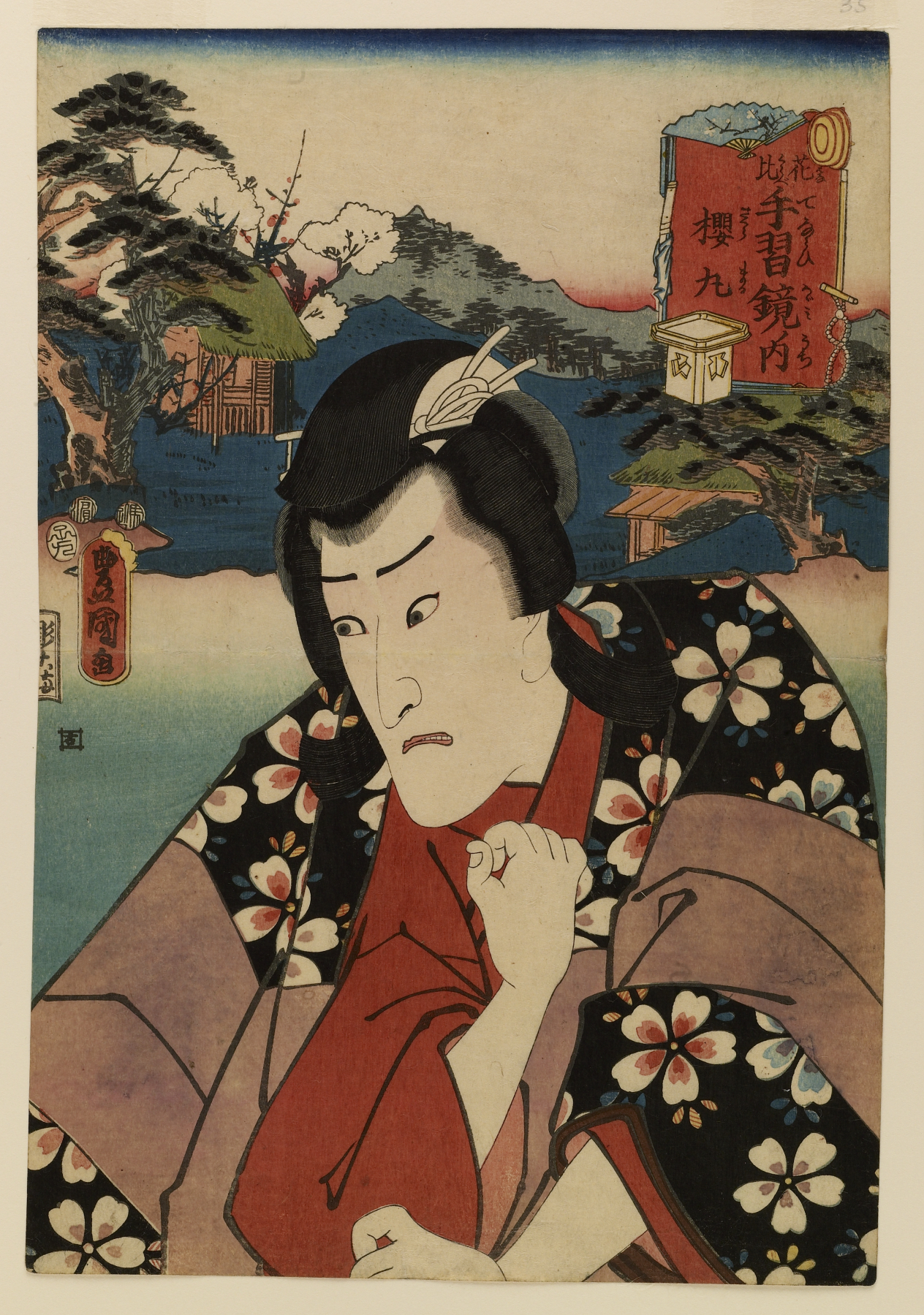 The actor Onoe Kikugorō III in the role of Sakuramaru. One of a set of triplets who grows up in the circle of the great calligrapher Sugawara Michizane, Sakuramaru enters the service of a prince. Eventually he performs ritual suicide because he feels responsible for the unjust exiling of Sugawara. Sakuramaru is wearing a cherry-blossom patterned kimono (sakura means "cherry tree").